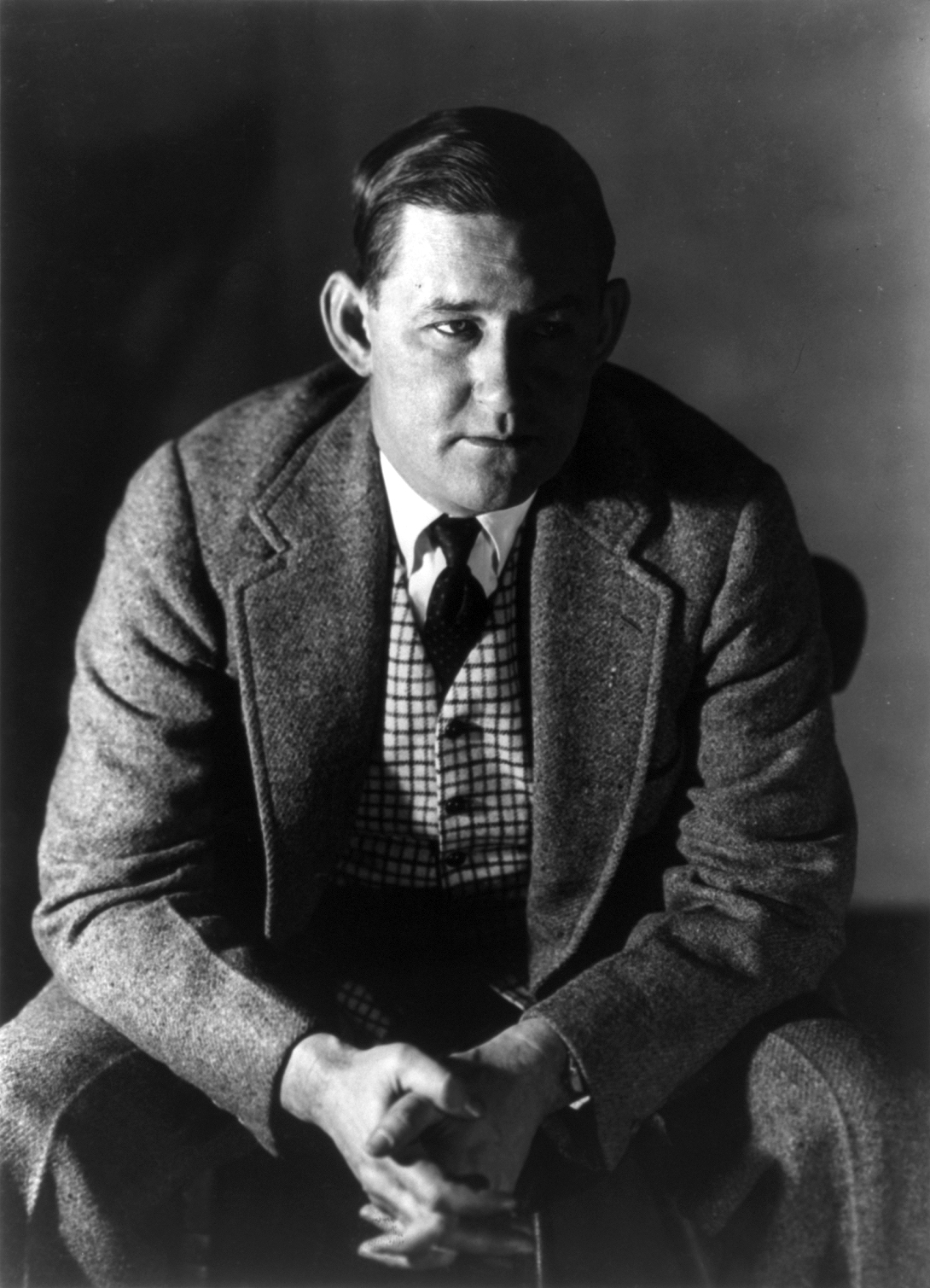 John O'Hara, American author, three-quarter length portrait, seated, facing right